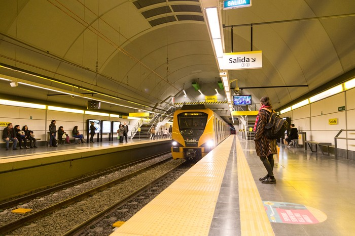 Santa Fe Station, Line H from the Buenos Aires Underground.